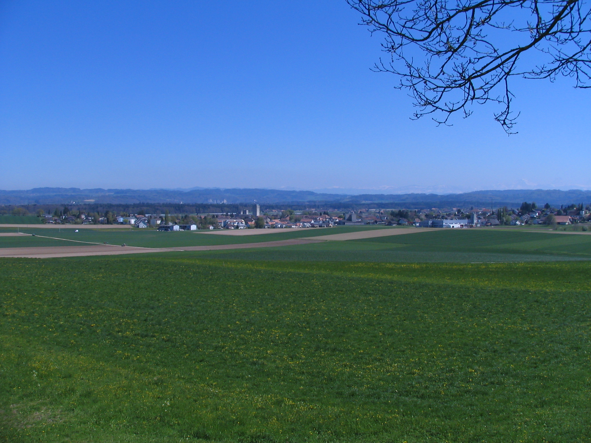 The village Fraubrunnen, on the right side the church